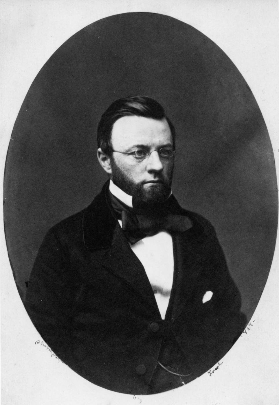 1857 Portrait of Robert H. Vance. Robert H. Vance (1825-1876), was an early daguerrotypist and photographer in California from 1851-1862, with galleries throughout northern California, including Sacramento, Marysville, San Jose and San Francisco. He was the first person to teach Carleton Watkins to take photos. San Jose Public Library Collection Dimensions 5 x 7 in. Rights Material in the public domain. No restrictions on use. For more information on copyright or permissions for this image, please contact the California Room: Collection Clyde Arbuckle Photograph Collection